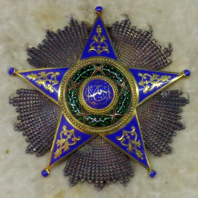 Order of Ismail (Nishan al-Ismail), star of Grand Cross, 1923-1946. Kingdom of Egypt. The exhibition of the Tallinn Museum of Orders of Knighthood, Estonia.